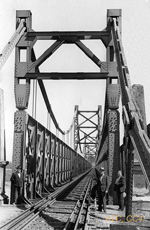 Maule Railway Bridge ca. 1920. Photo taken by Ernest Thompson Lever, constructor's grandson.